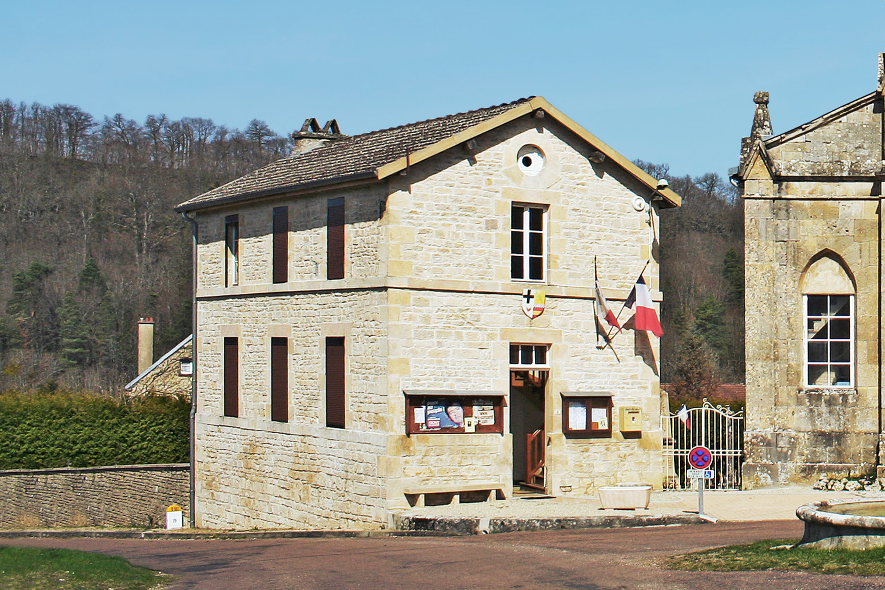 Townhall of Busseaut